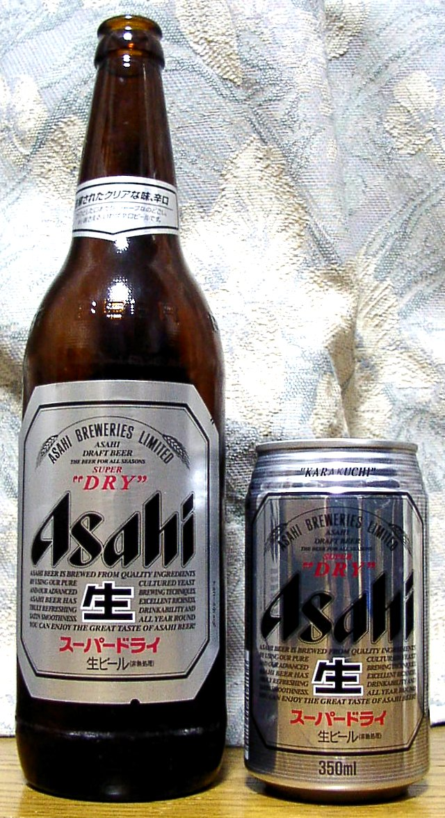 Asahi Super Dry are sold in Japan